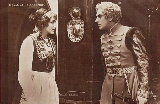 Renée Björling and Richard Lund in the film Klostret i Sendomir (1920) - publicity still